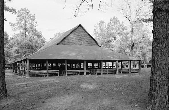 Indian Field Methodist Campground, Chapel, SC Route 73, near US Route 15, Saint George (Dorchester County, South Carolina) - cropped